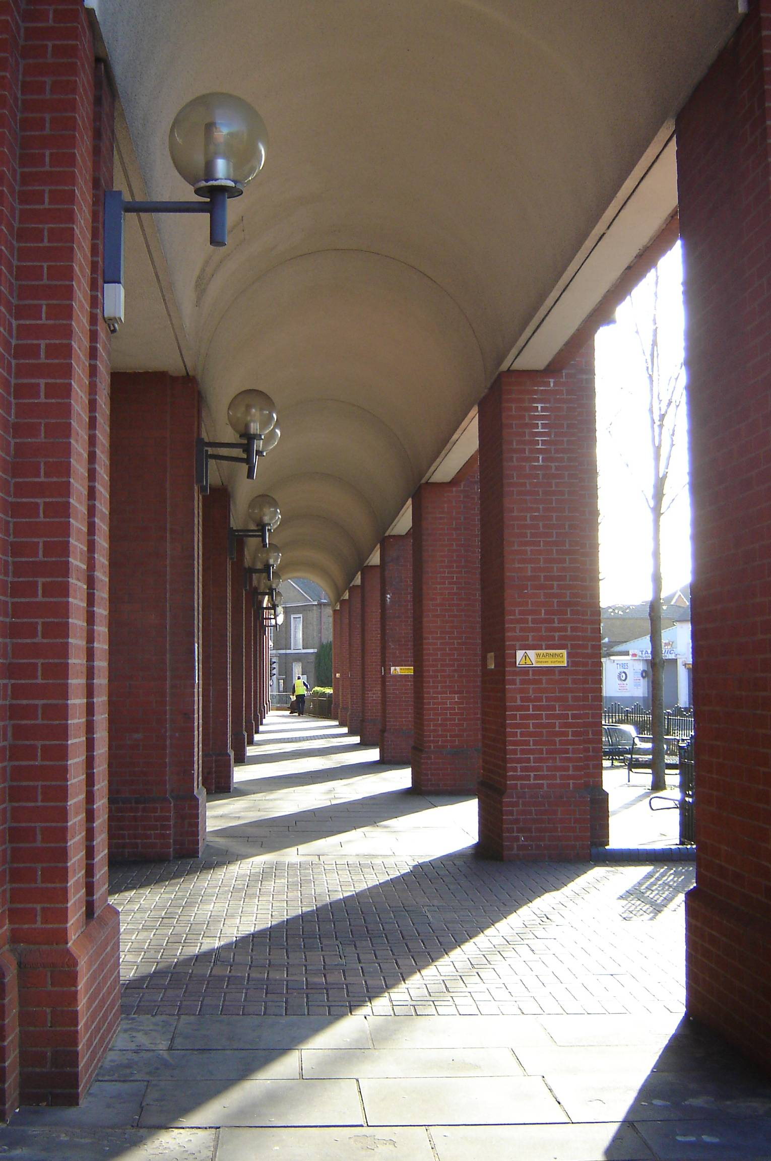 Rear of the Treaty Centre Shopping Centre in Hounslow.